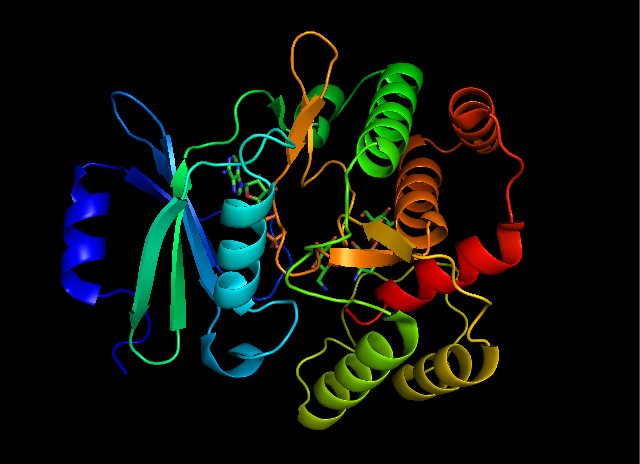 A 3D depiction of APH(3')